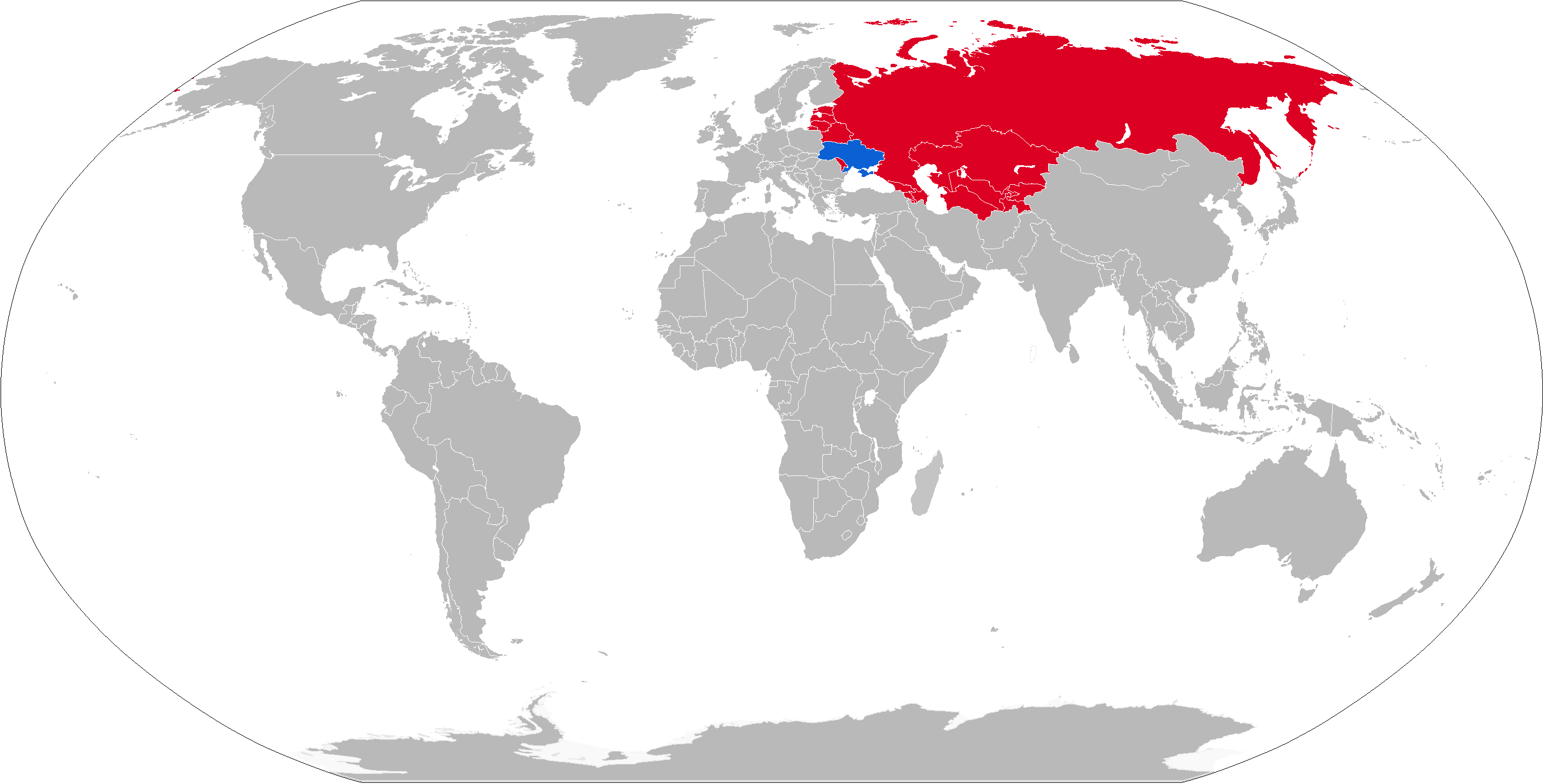 Map with KrAZ-260 operators in blue with former operators in red